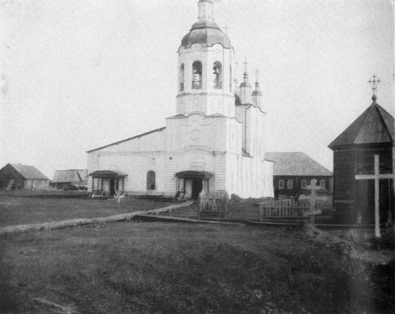 The church of the Troitskiy Monastery